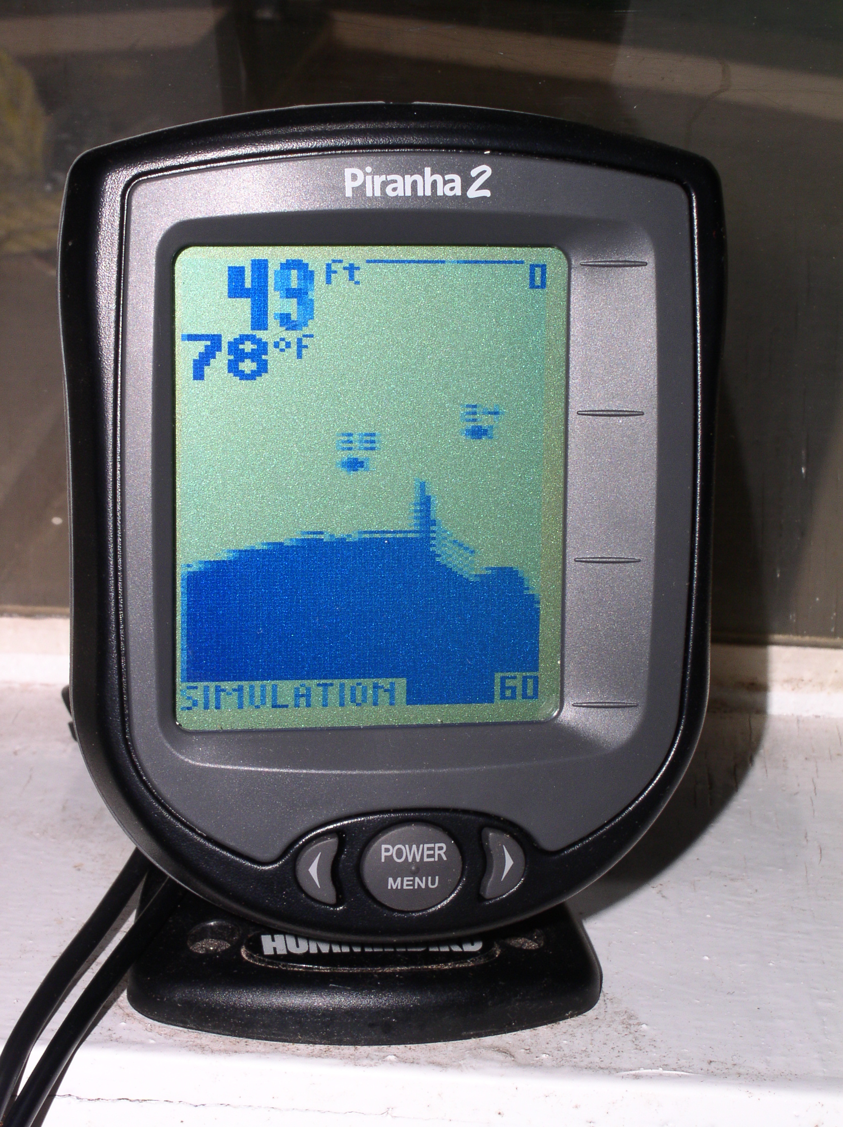 A sportfishing Fishfinder